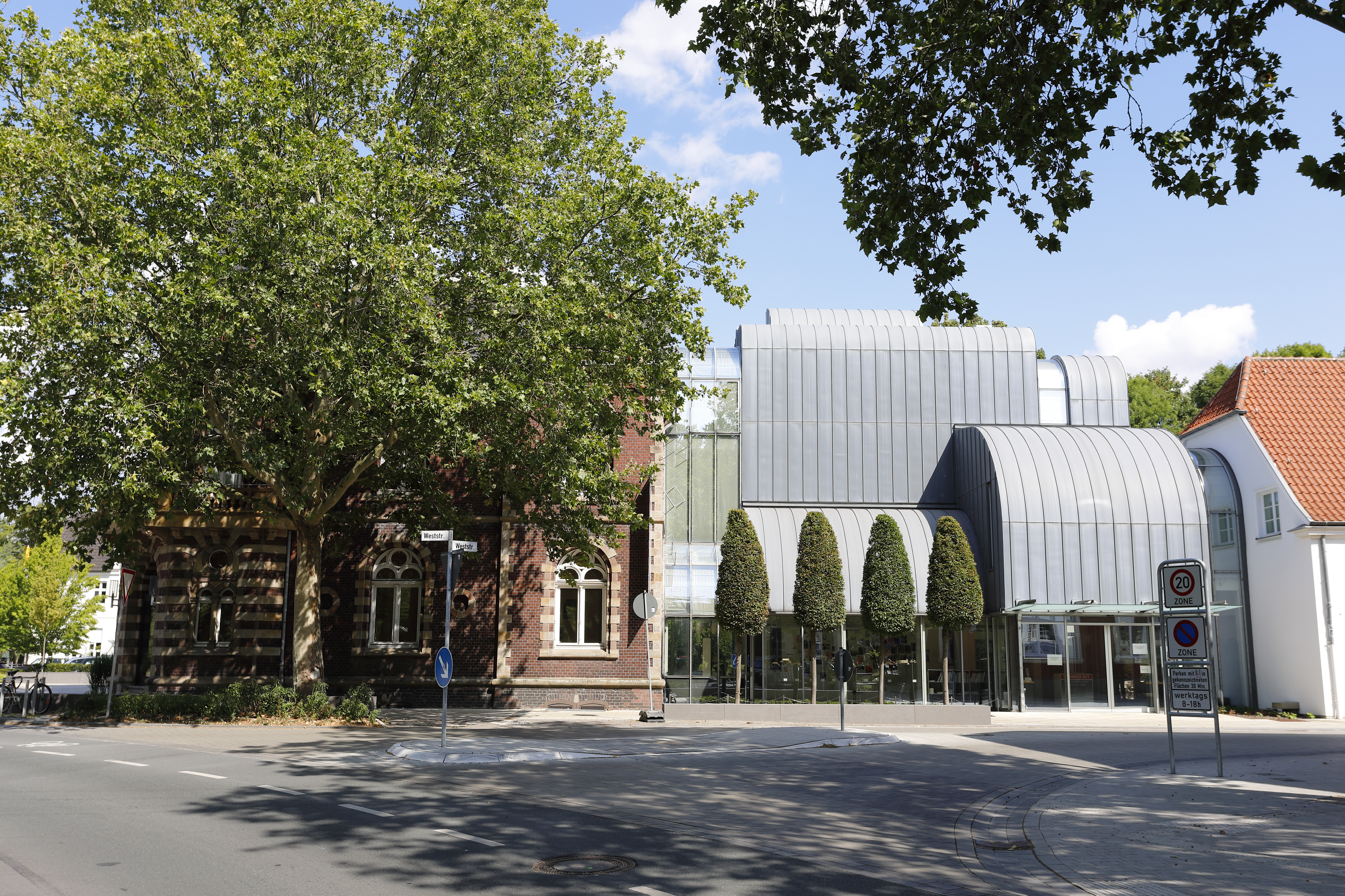 Kunstmuseum Ahlen, outside, view from south